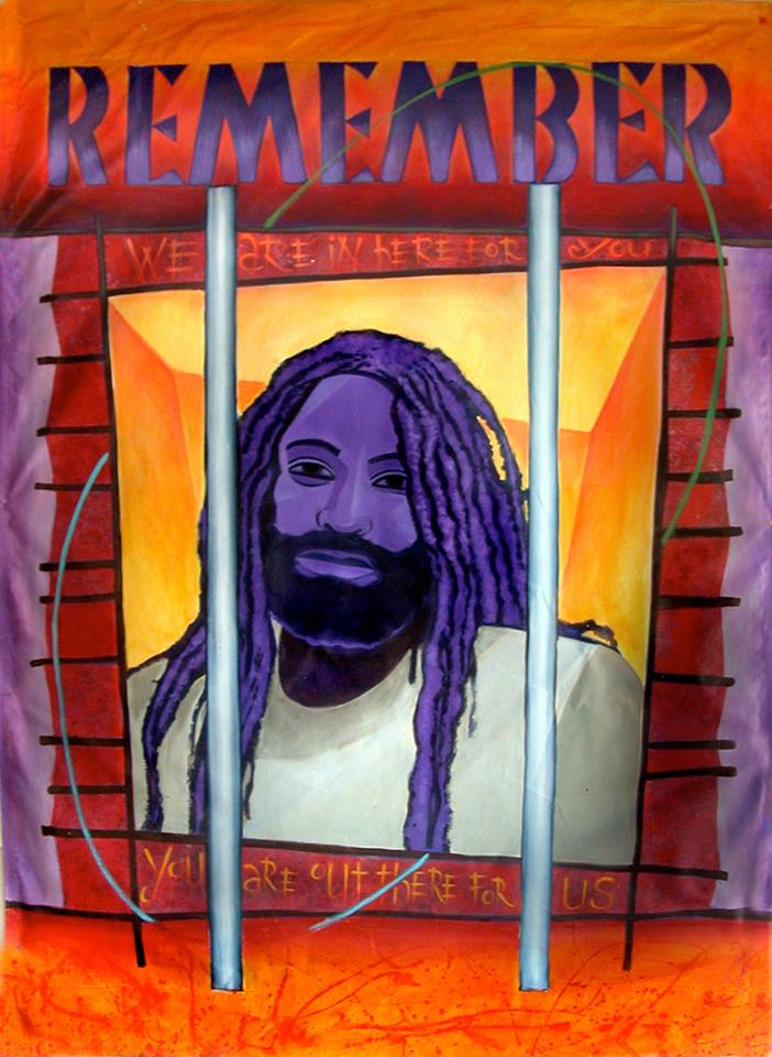 1995 banner depicting Mumia by American muralist Mike Alewitz. Text reads: "Remember, we are in here for you. You are out there for us."